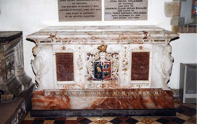 St Mary, Brading - Chest tomb monument of Sir Henry Oglander, 7th Baronet (1811–1874). In 1845 Oglander married Louisa Leeds, a daughter of Sir George William Leeds, 1st Baronet. Listed building text: "chest tomb in Arts and Crafts Jacobean style designed by J C Powell 1897 of marble alabaster and mosaic with 2 small white angels at the front by Henry Pegson". Arms of Oglander (Azure, a stork between three cross-crosslets fitchée or) impaling Argent, a fesse gules between three eagles displayed sable a bordure of the second with a canton of a Red Hand of Ulster for a baronet..